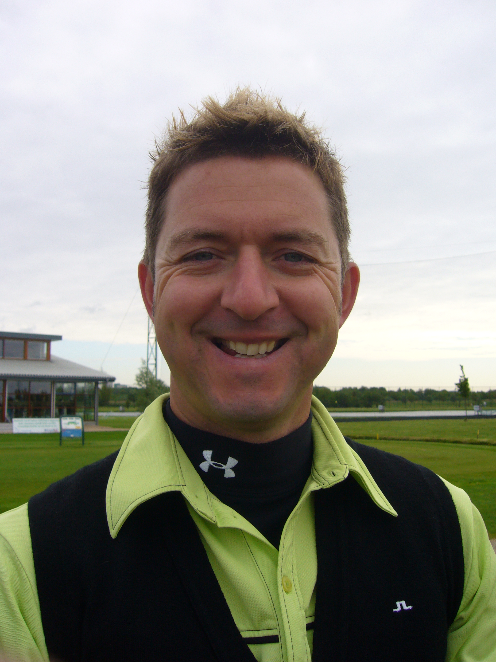 Niels Kraaij, Dutch golfprofessional